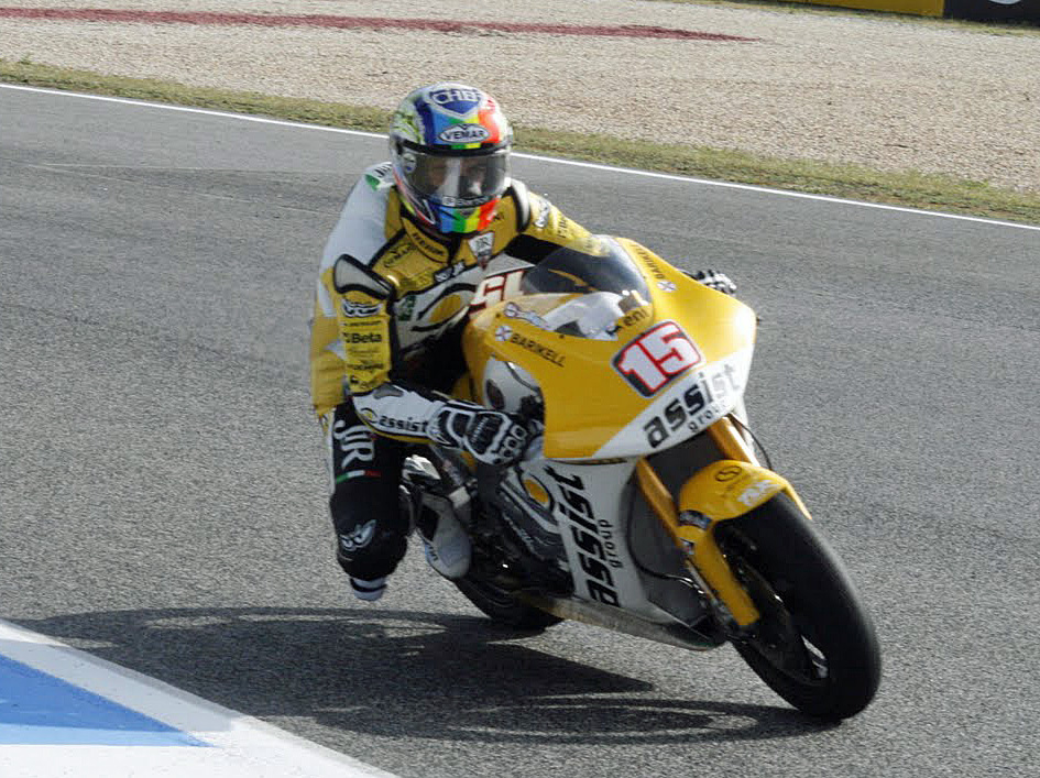 Alex de Angelis 2011 Estoril